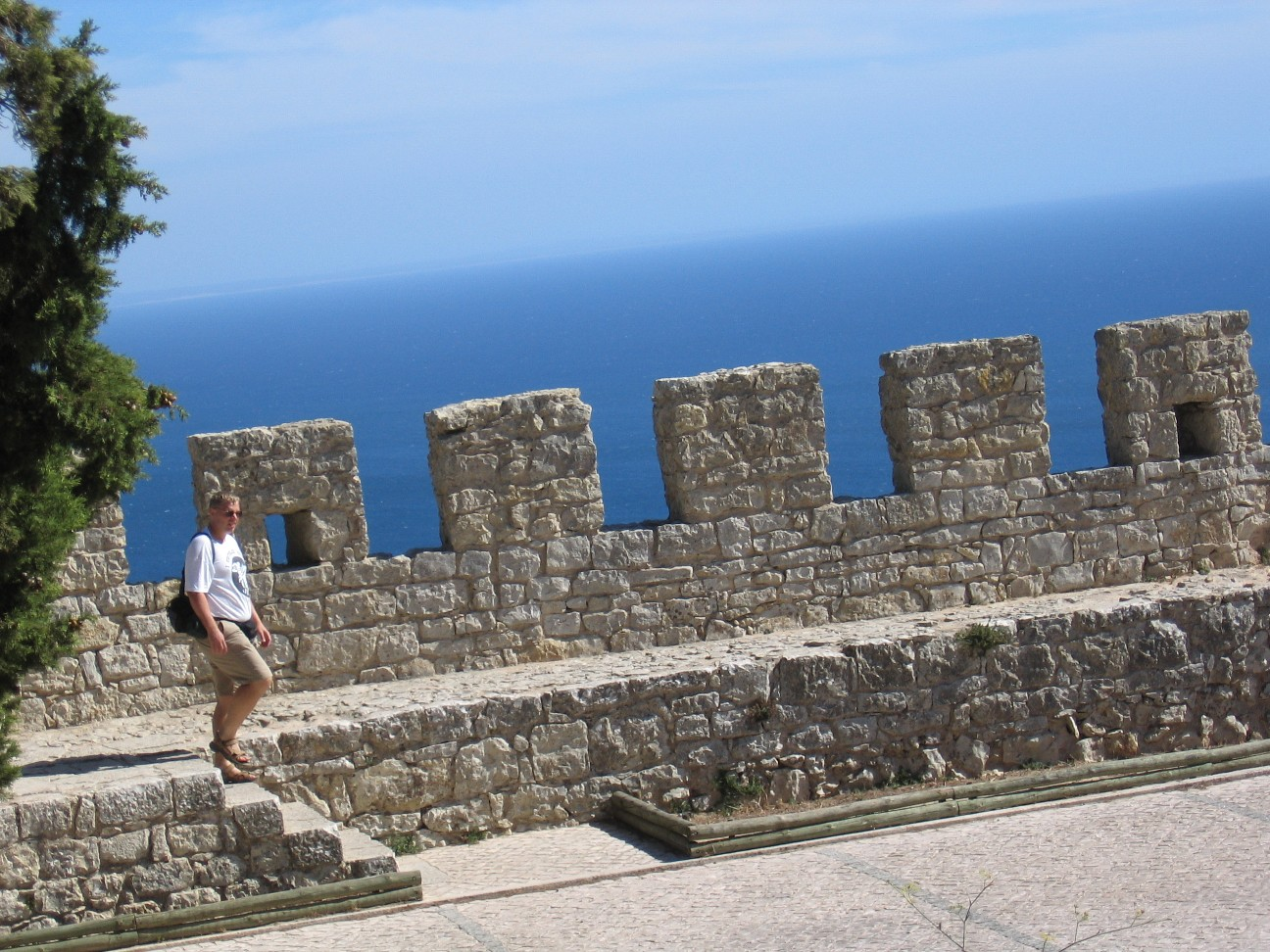 At the foot of the Serra da Arrabida we stopped at an old fortress just outside the fishing village of Sesimbra. Here Arne is securing the premises.